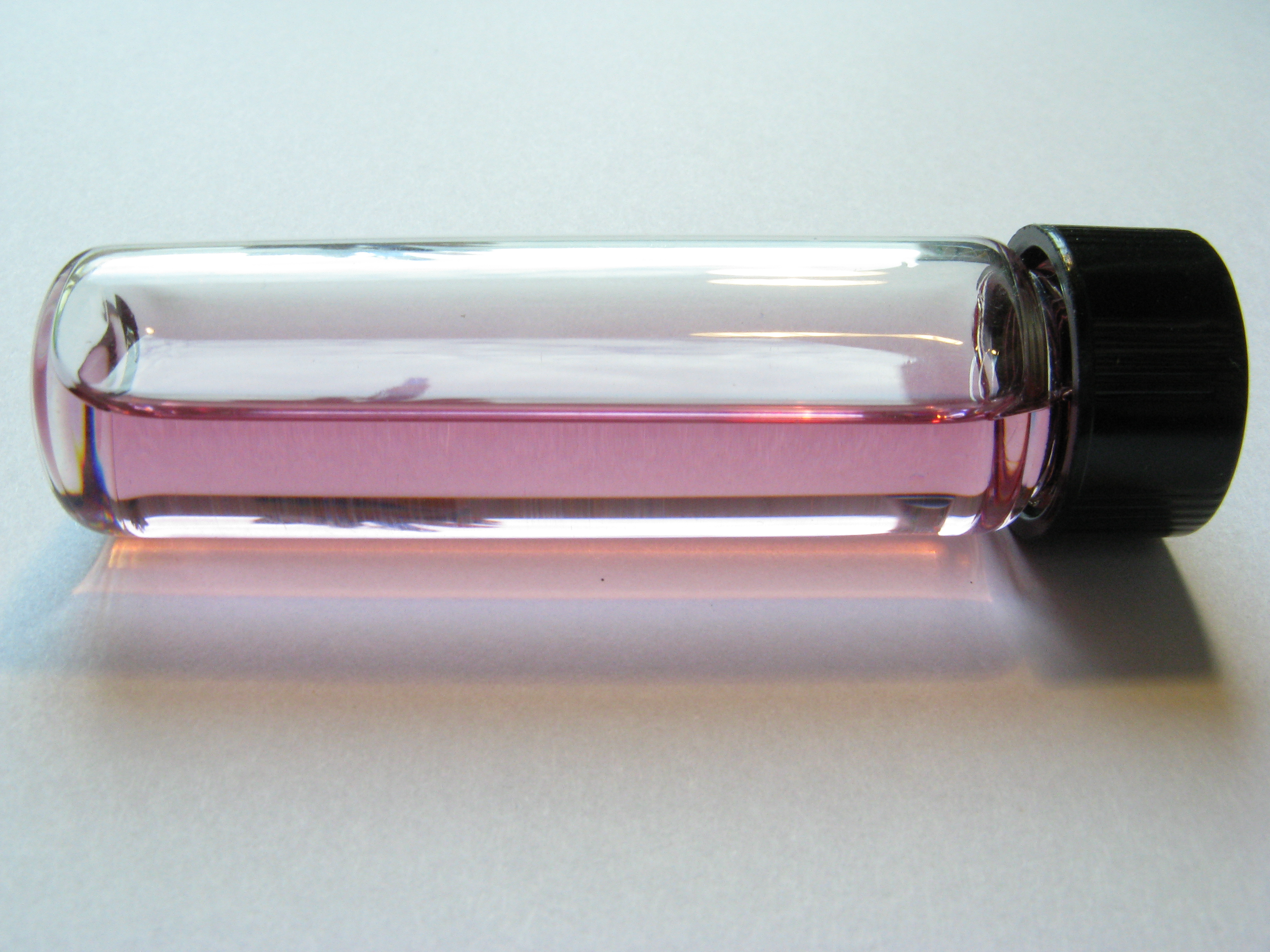 These are Buckminster-Fullerenes (C60) in a Solution.